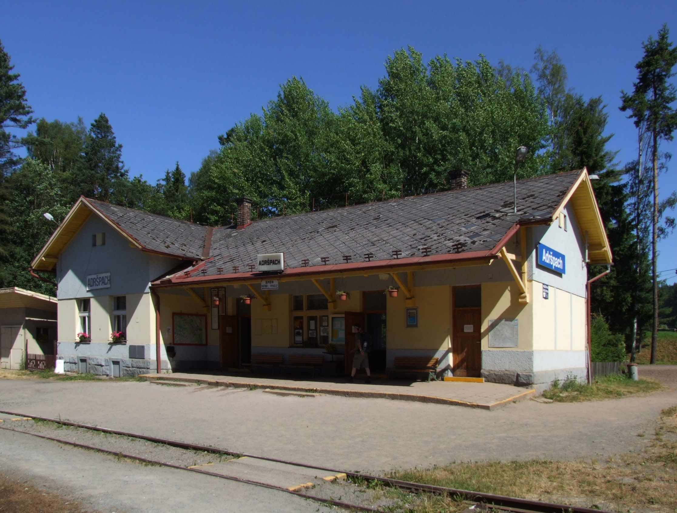 Adršpach (Adersbach) - train station